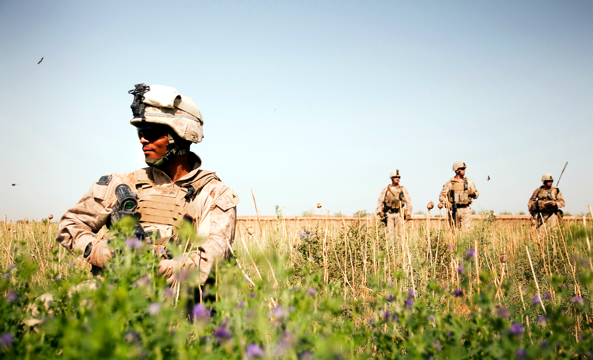 SOUTHERN SHORSURAK, Helmand province, Islamic Republic of Afghanistan-Lance Cpl. Joshua J. Melendez, a squad automatic weapon gunner with Lima Company, 3rd Battalion, 3rd Marine Regiment, provides security during a break in his squad’s patrol to the east of their newly established observation post in Southern Shorsurak, Helmand province, Afghanistan, during Operation New Dawn, June 20, 2010. Melendez, from Anaheim, Calif., and the Marines found two directional fragmentation improvised explosive devices weighing 35 pounds each, 15 feet of detonation cord and 15 pounds of ammonium nitrate and aluminum powder during the patrol. Operation New Dawn is a joint operation between Marine Corps units and the Afghanistan National Army to disrupt enemy forces, which have been using the sparsely populated region between Marjah and Nawa as a safe haven.